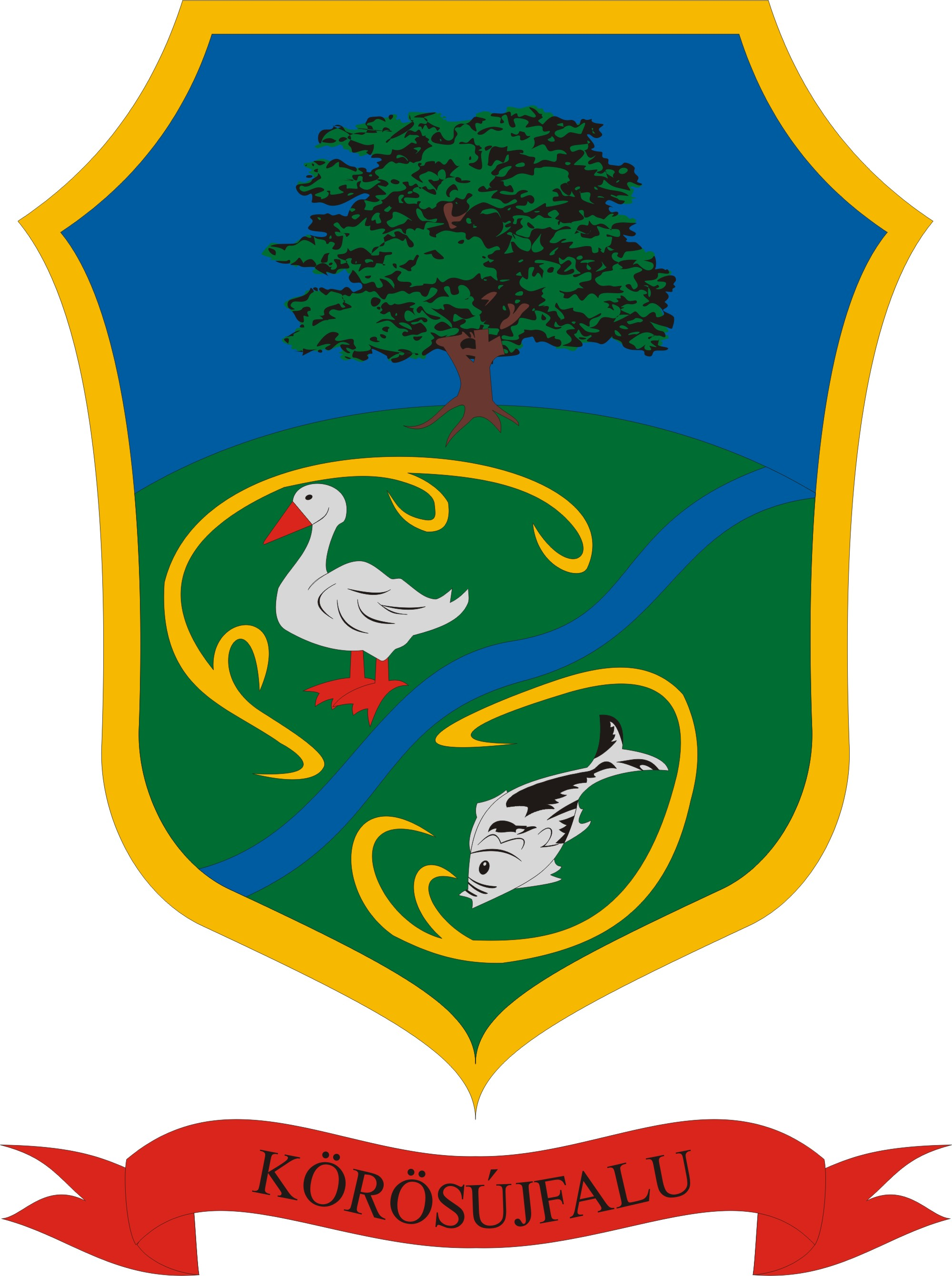 Coat of arms of Körösújfalu, Hungary